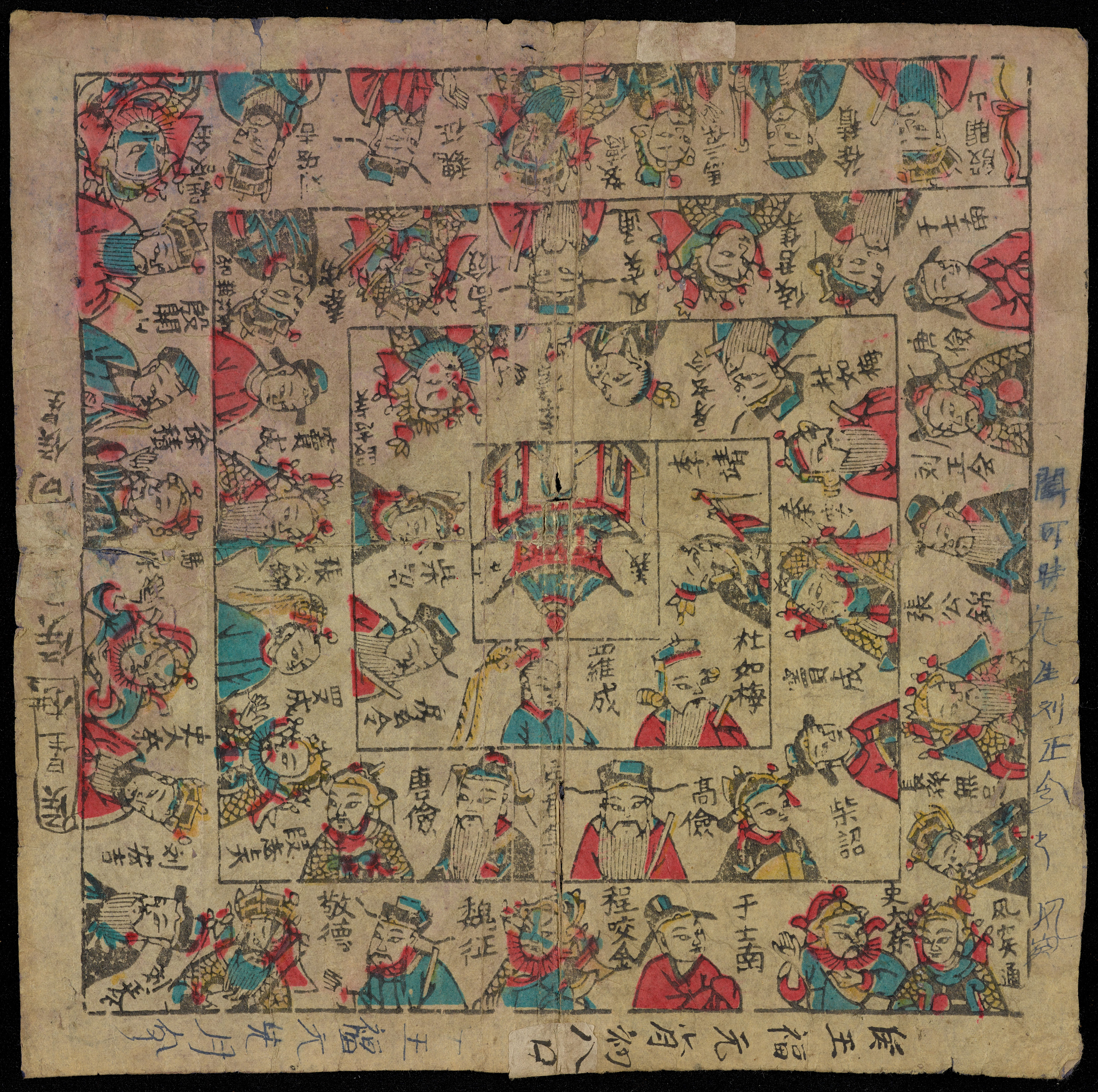 Sheng Guan Tu: Historical figures of Sui and Tang Dynasties, a Chinese dice game where you promote the officials. Lists historical figures during the Sui and Tang dynasties such as Yin Kaishan, Xu Ji, Ma Sanbao, Yuchi Gong, Wei Zheng, Liu Hongji, Cheng Yaojin, Shi Danai, Liu Zhenghui, Yu Shinan, Zhangsun Wuji, Zhang Gongjin, Tang Jian, Hou Junji, Qin Qiong, Dou Cheng, Luo Cheng, Chai Zhao, Du Ruhui, Fang Xuanling, Li Jing and others.